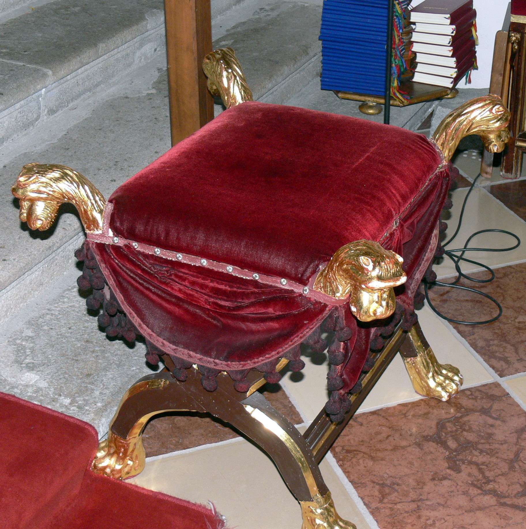 Schlägl ( Upper Austria ). Monastery church - Curule seat for the priest.